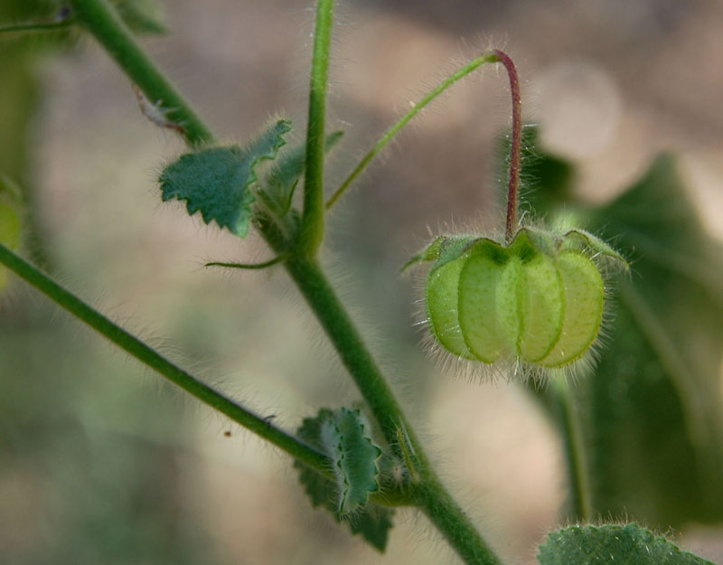 Herissantia crispa, bladder mallow, fruit. New River Mountains, Maricopa County, Arizona, USA.